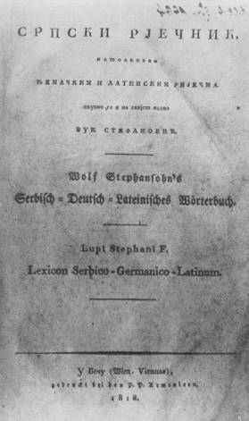 Front Cover of Vuk Stefanović Karadžić's Srpski rjećnik.